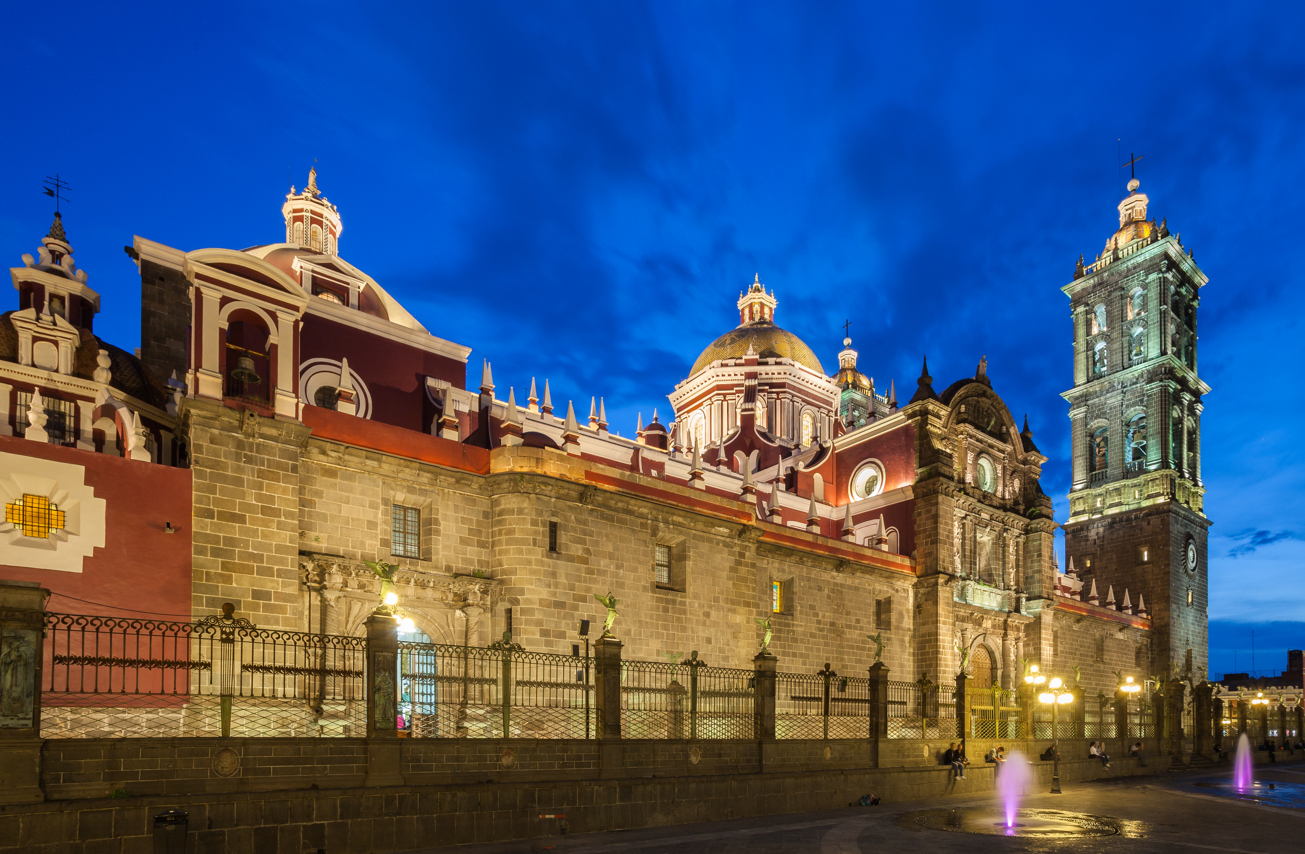 Puebla Cathedral, Mexico